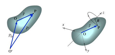 Corpo rígido em movimento e referencial Oxyz que se desloca com ele.